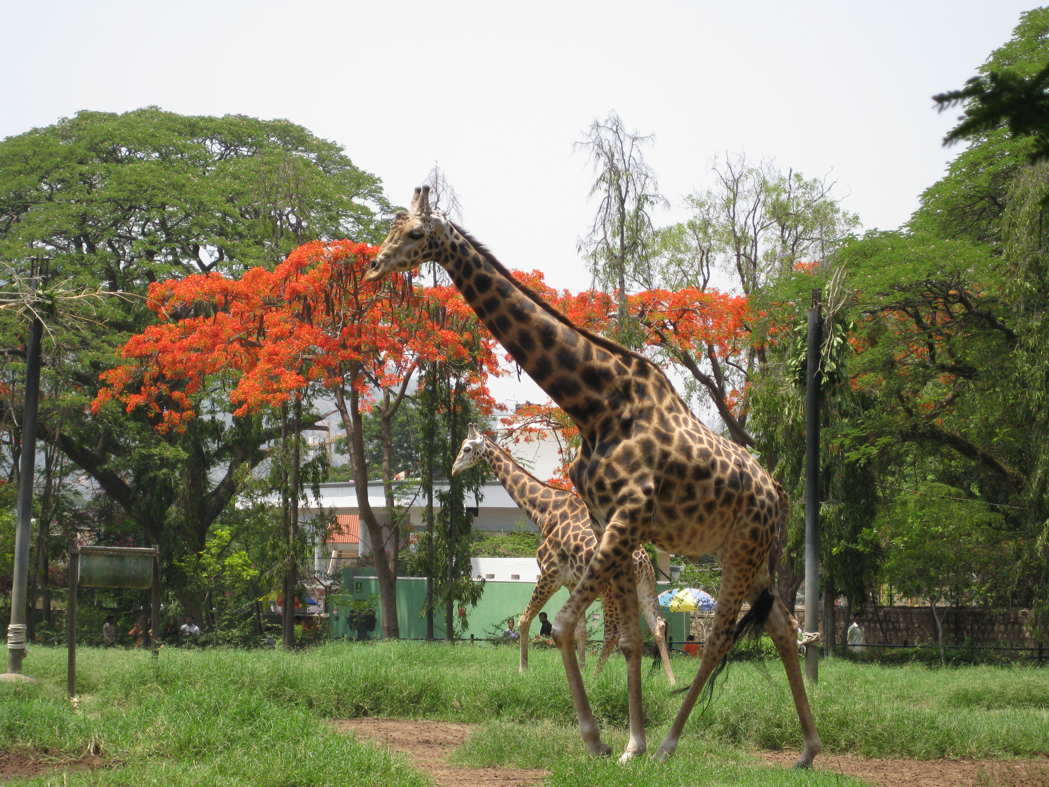 Two beautiful giraffes in Mysore zoo.